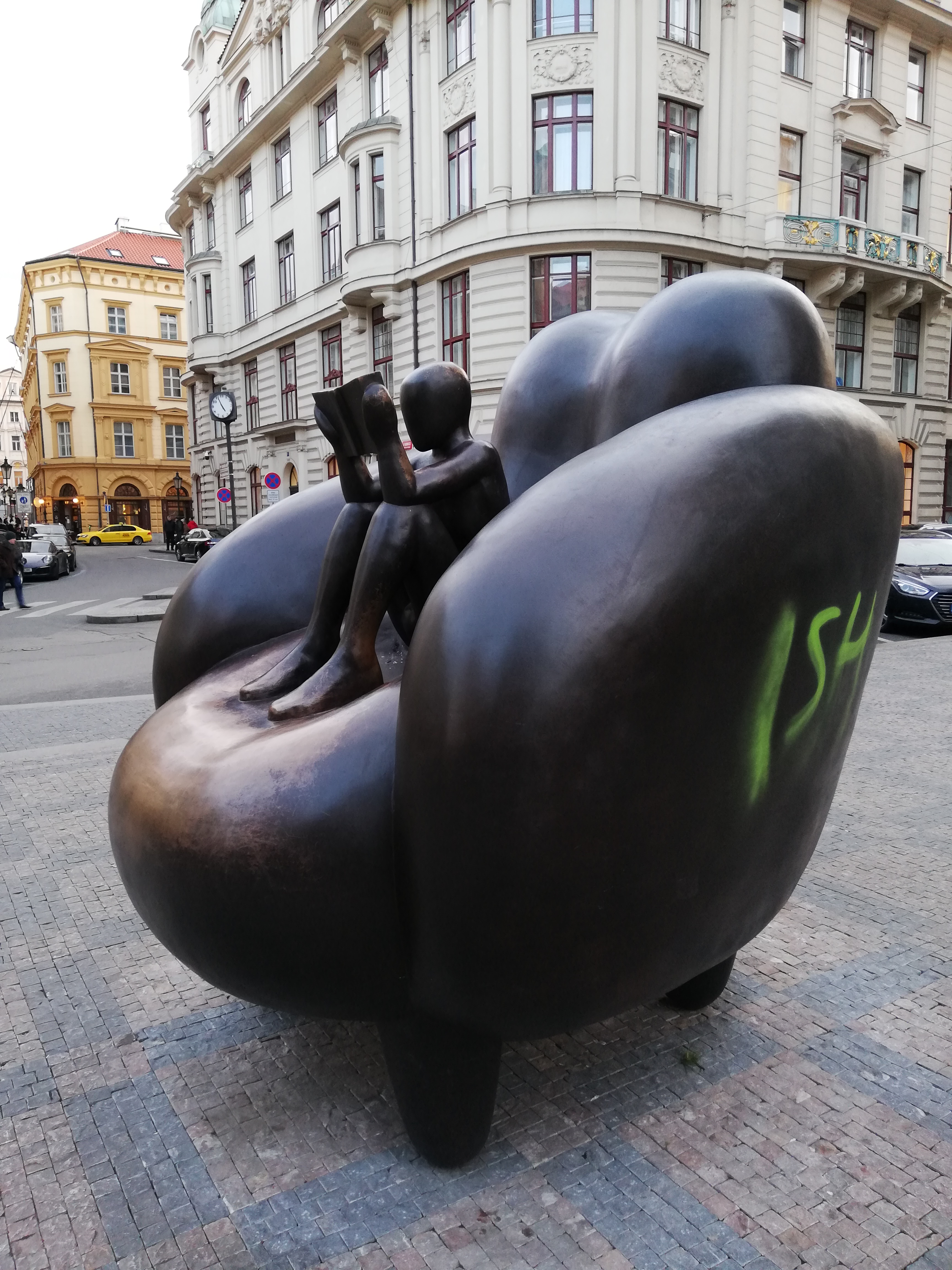 In public space based: „Reader in an armchair“, Prague, Czech republic. Sculptor: Jaroslav Róna. (International sculpture festival 2019; Sculptur line